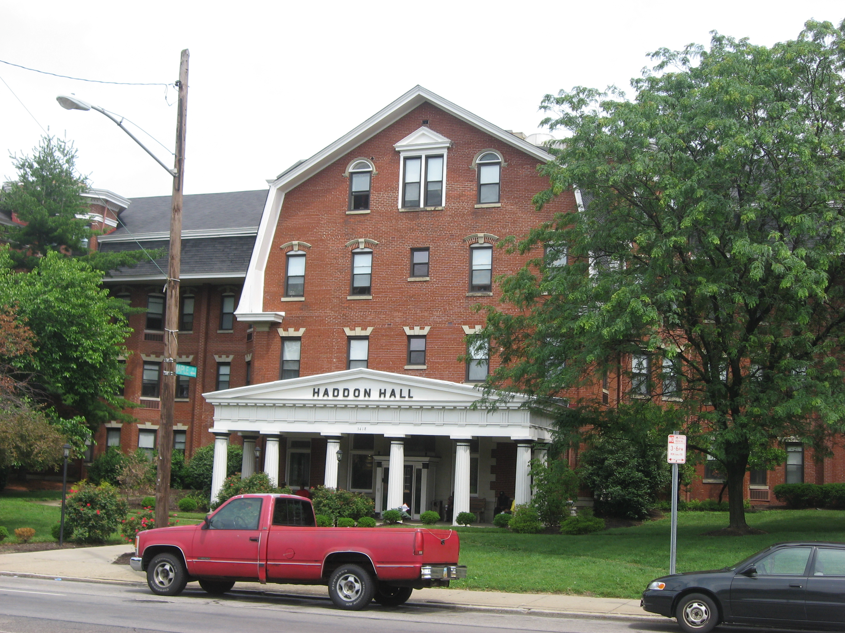 One of the entrances to Haddon Hall, located at 3418 Reading Road (U.S. Route 42) in Cincinnati, Ohio, United States. Built in 1909, it is listed on the National Register of Historic Places.